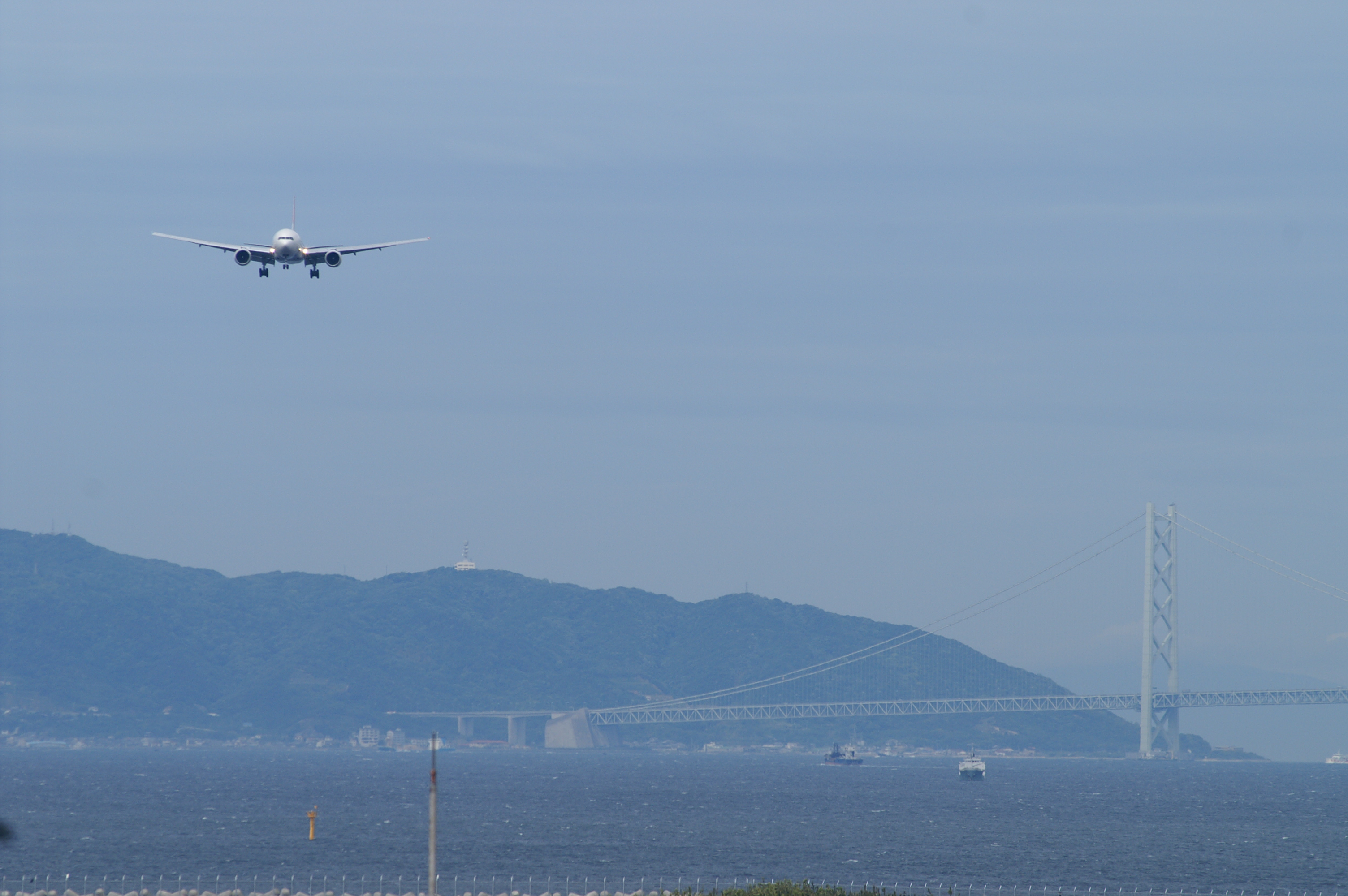 Kobe Airport in Kobe, Japan.